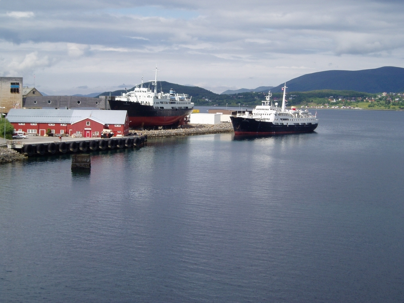 The Hurtigruten Museum — at Stokmarknes, Norway.